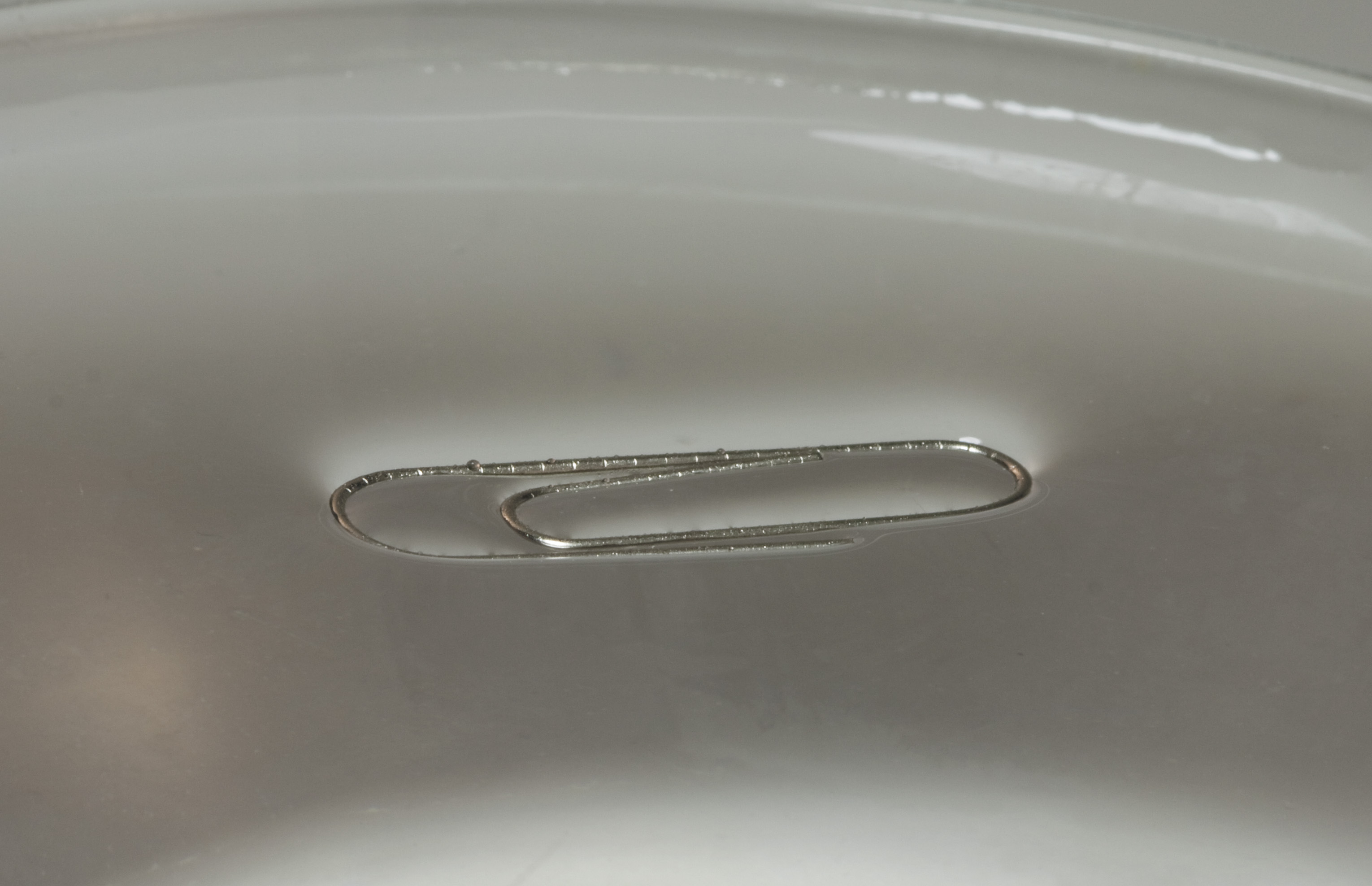 Demonstration of surface tension - a paperclip floating on water